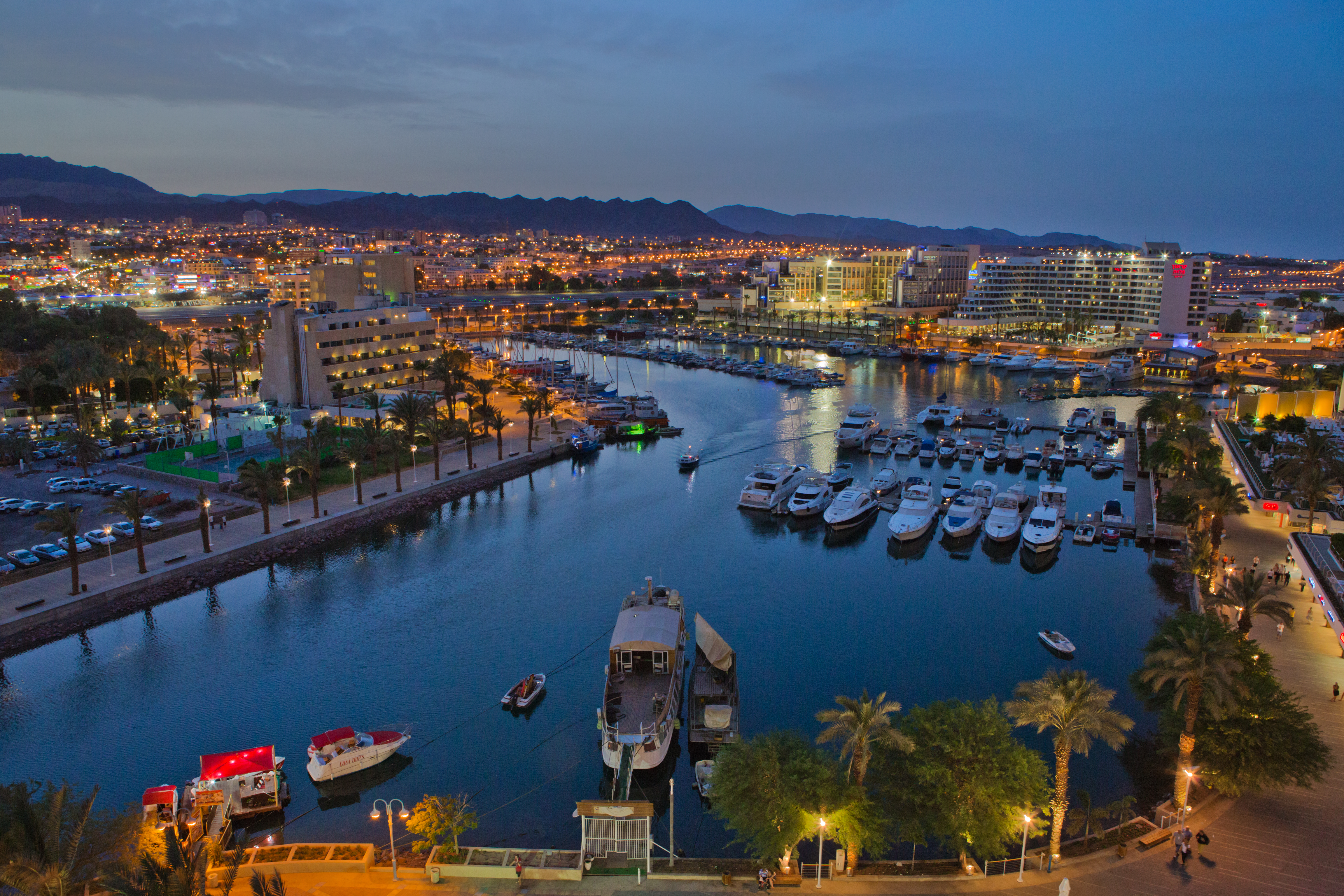 Eilat by the Red Sea